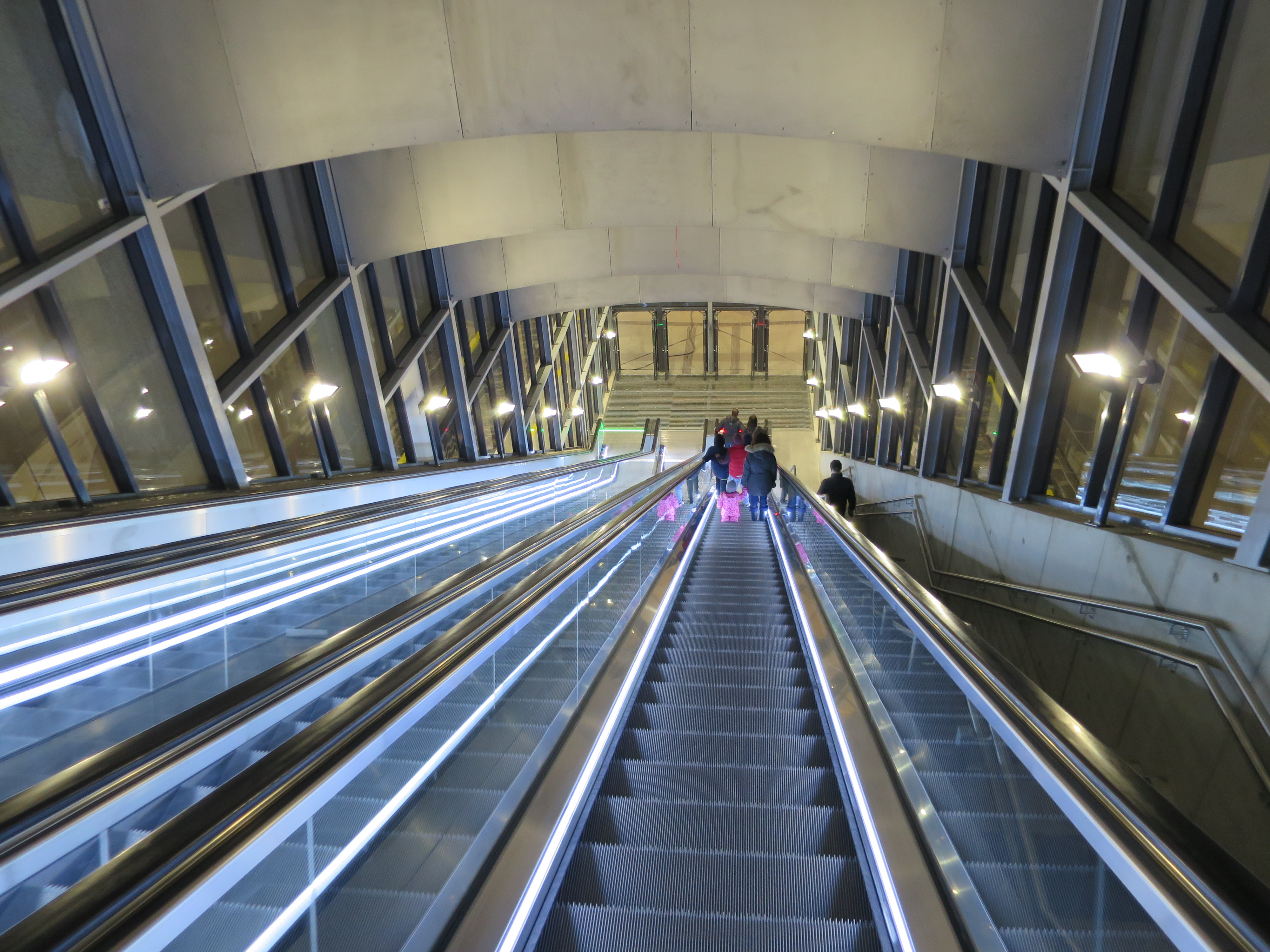 Løren subway station, Oslo, Norway, an underground rapid transit station of the Oslo Metro. Opened in April 2016 it is the newest on the subway network.